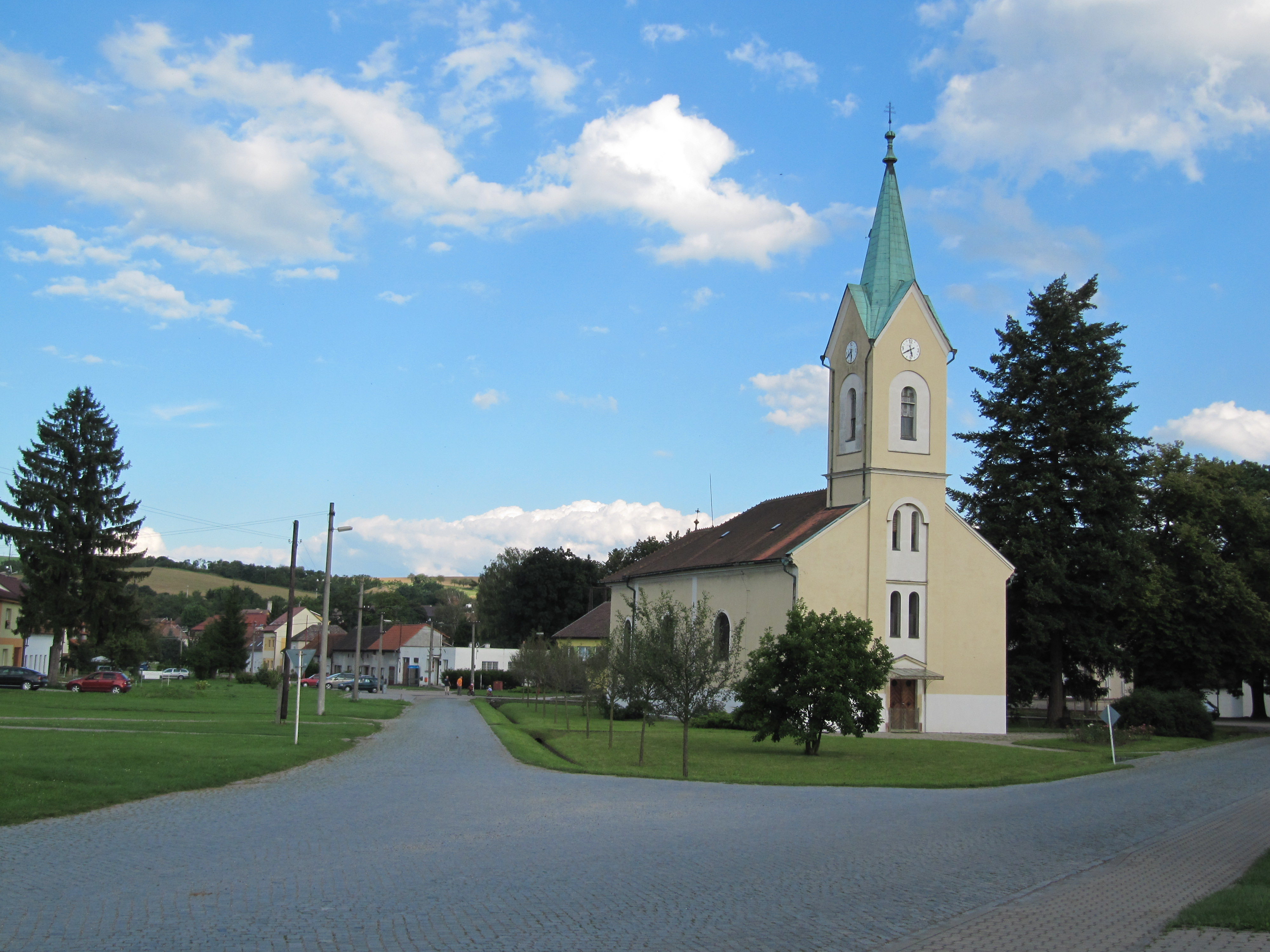 Březolupy in Uherské Hradiště District, Czech Republic. John-Nepomuk-Church.